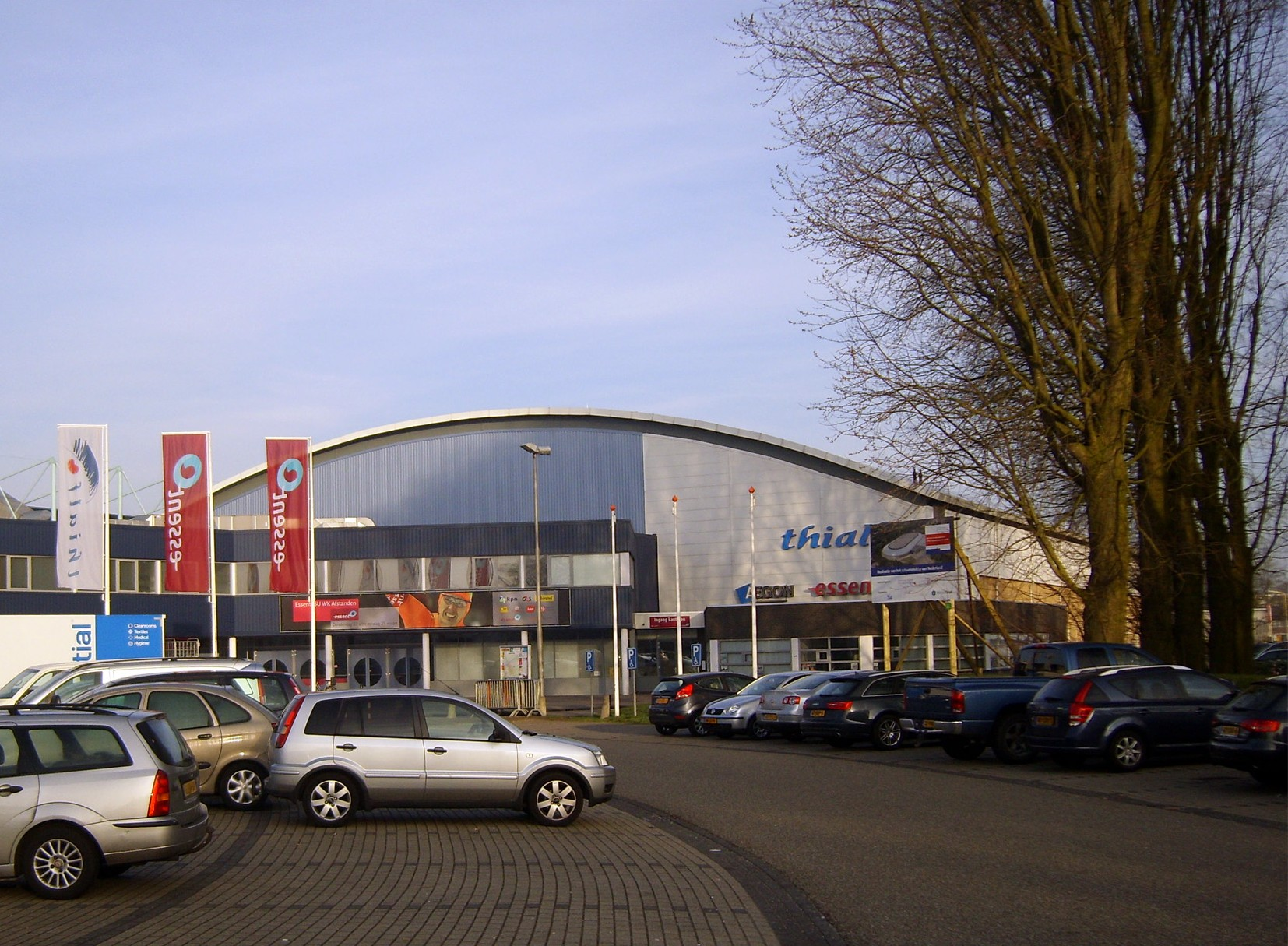 Thialf, Heerenveen, 9th Masters International Long Distance Races 2012